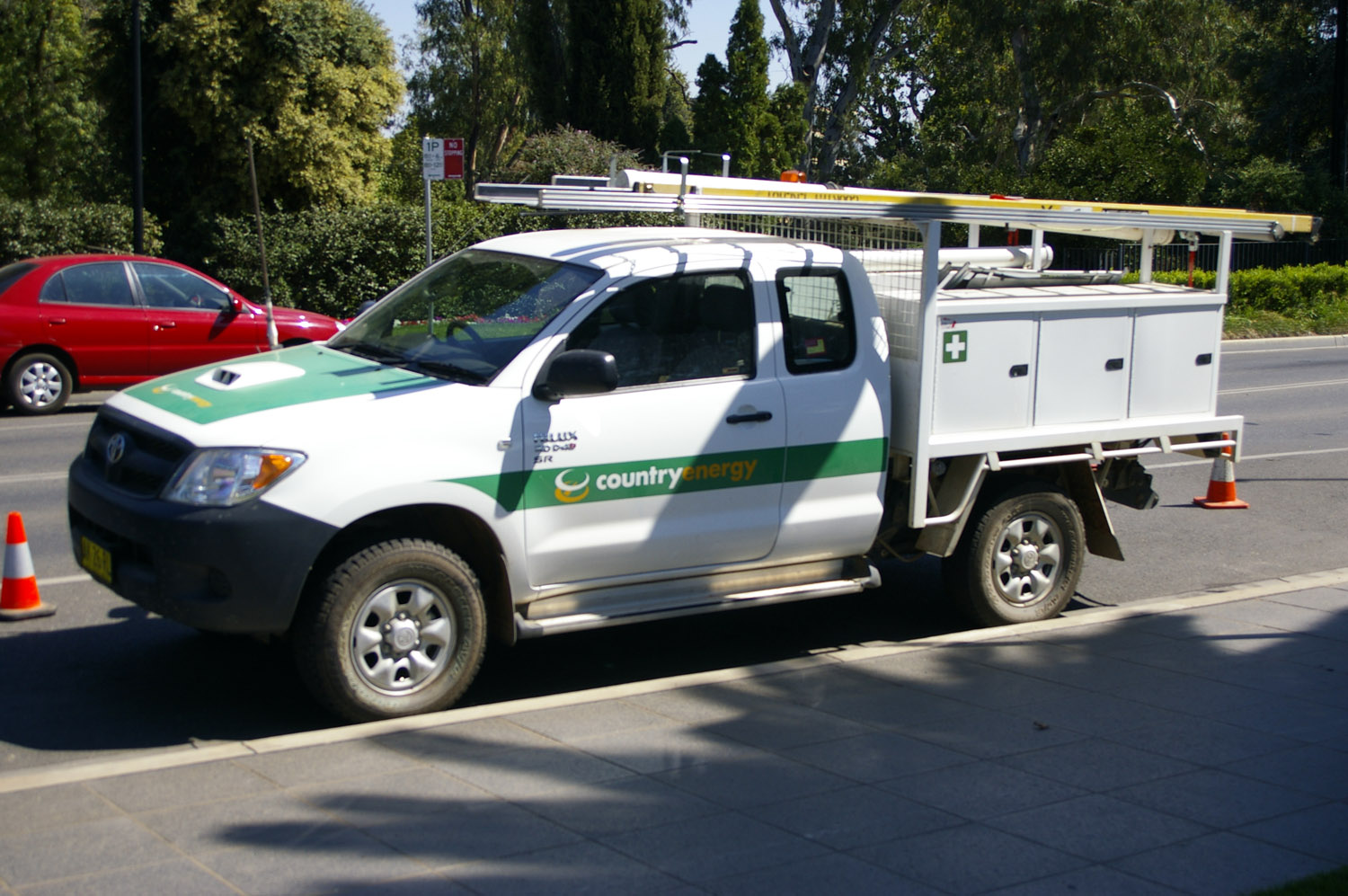 Country Energy. Wagga Wagga, New South Wales